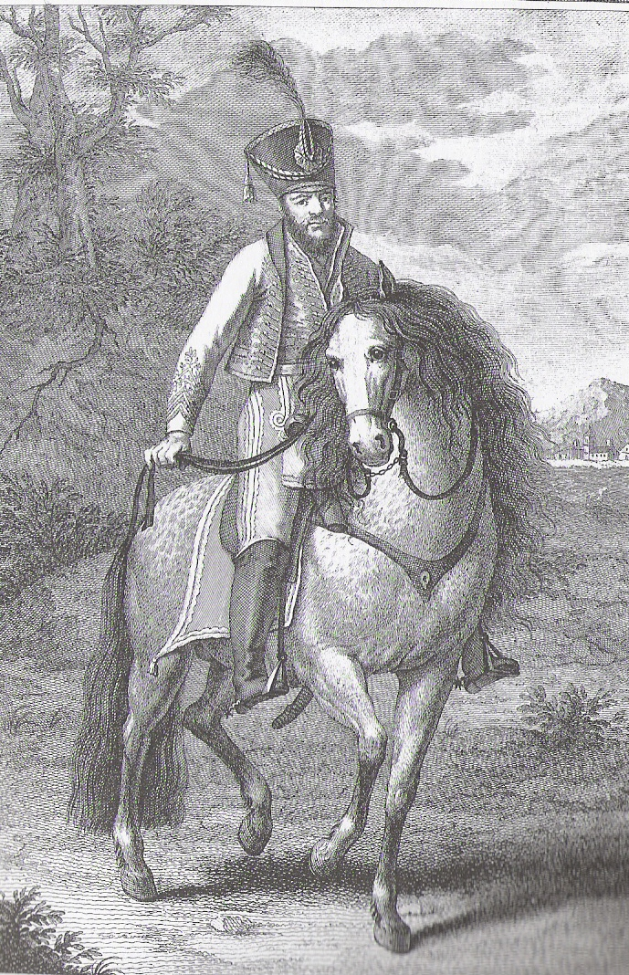 spanish gerriller fighter